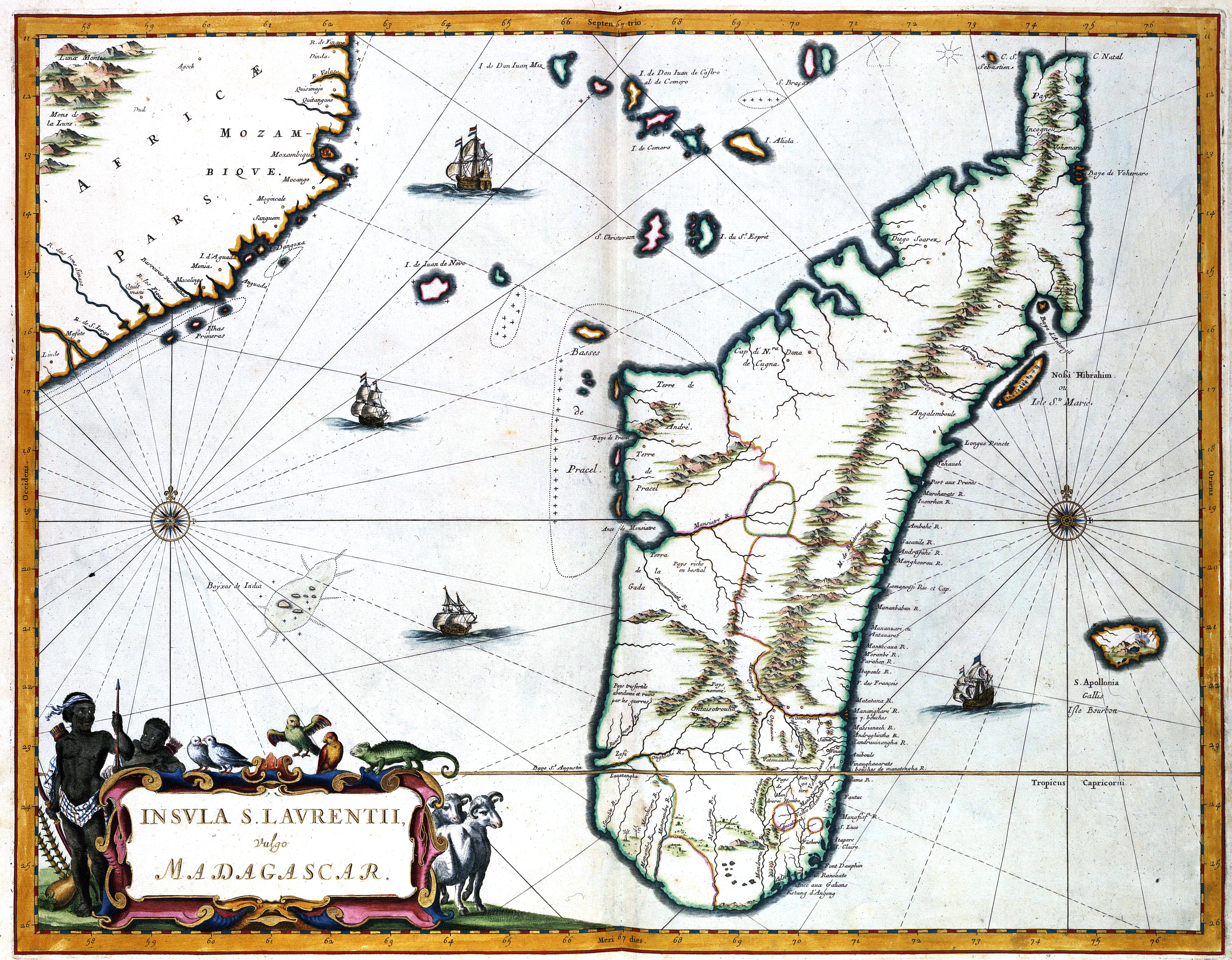 This map of Madagascar was published in 1662 in Joan Blaeus (1598-1673) Atlas Maior. For this map, Blaeu used a French source, probable a map by Étienne de Flacourt (1607-1660) from 1658. The French considered the island - discovered by Diogo Dias - as "La France Orientale".